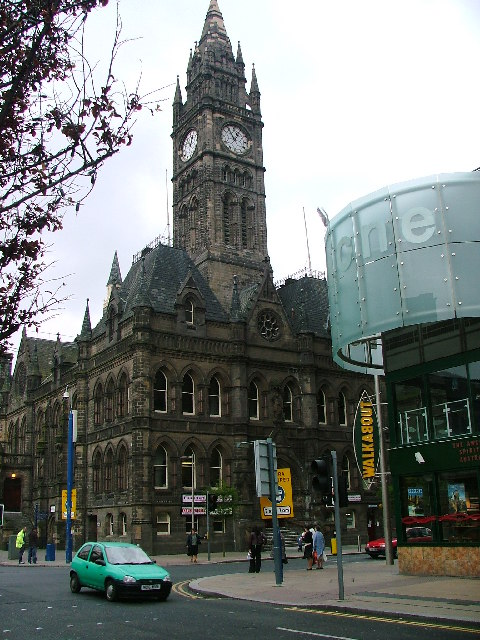 Middlesbrough Town Hall. The town hall with its 170 foot clock tower was built in 1889 and cost £130,000. It was seen as representative of the town's growing economic importance and was officially opened by the Prince and Princess of Wales, the future King Edward VII and Queen Alexandra.